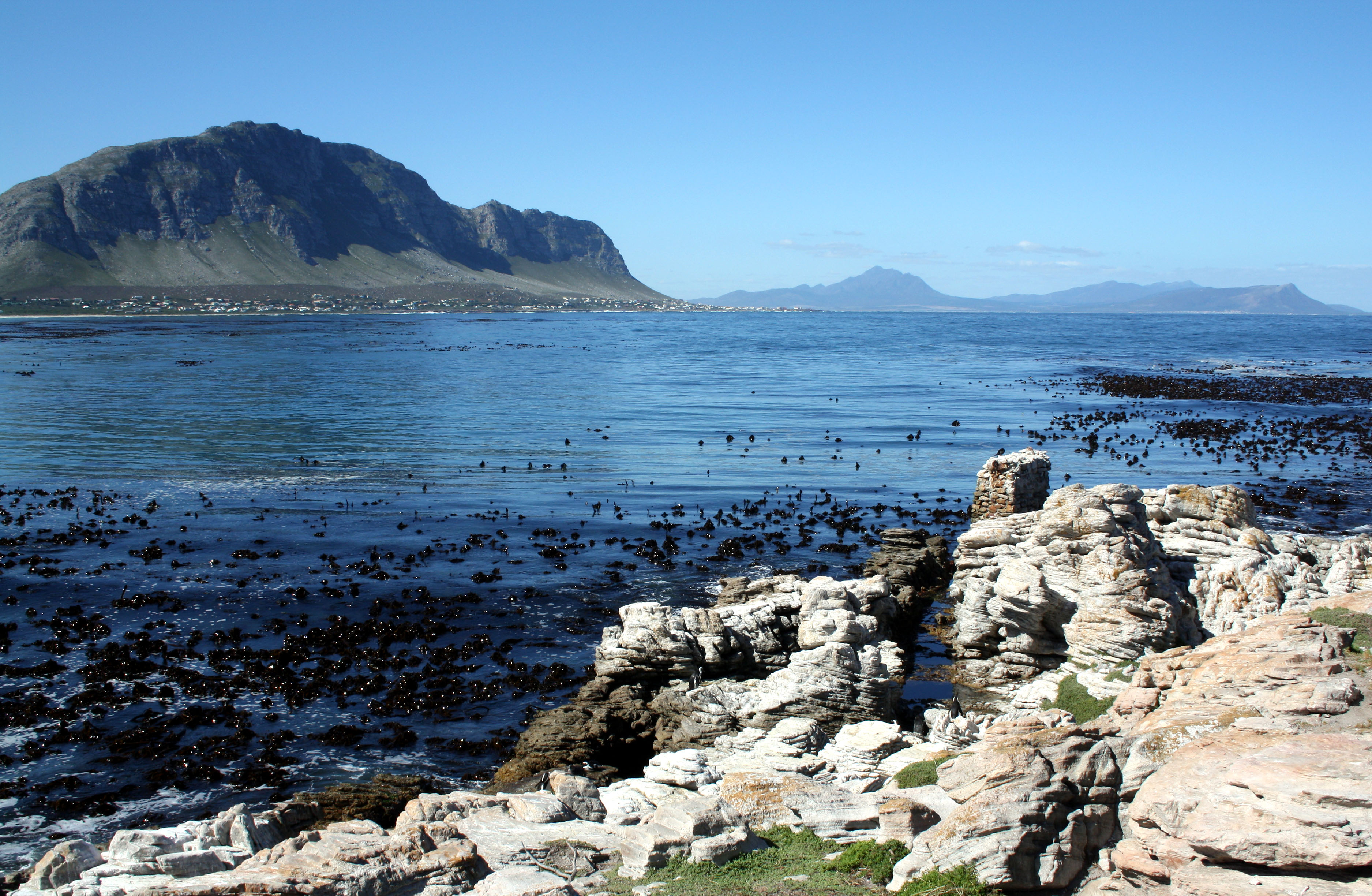 Betty's Bay, South Africa. April 2012. Photo by Winstonza talk